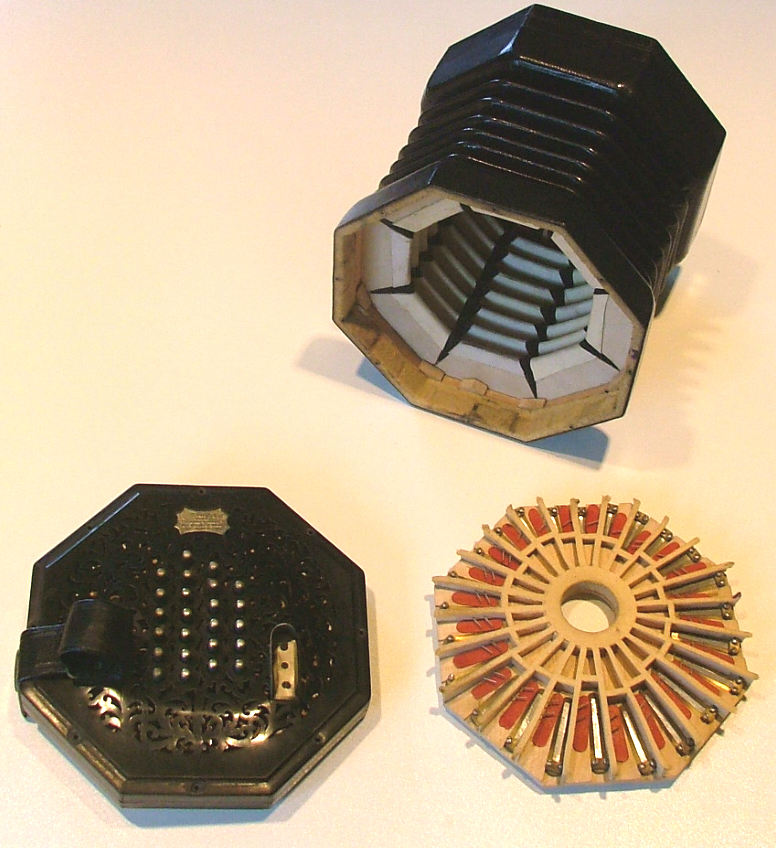 Photograph of a disassembled English Concertina by Charles Wheatstone. The instrument is owned by Tom McDermott of the Scottish Ceilidh band Chantydyke. Taken by Me.